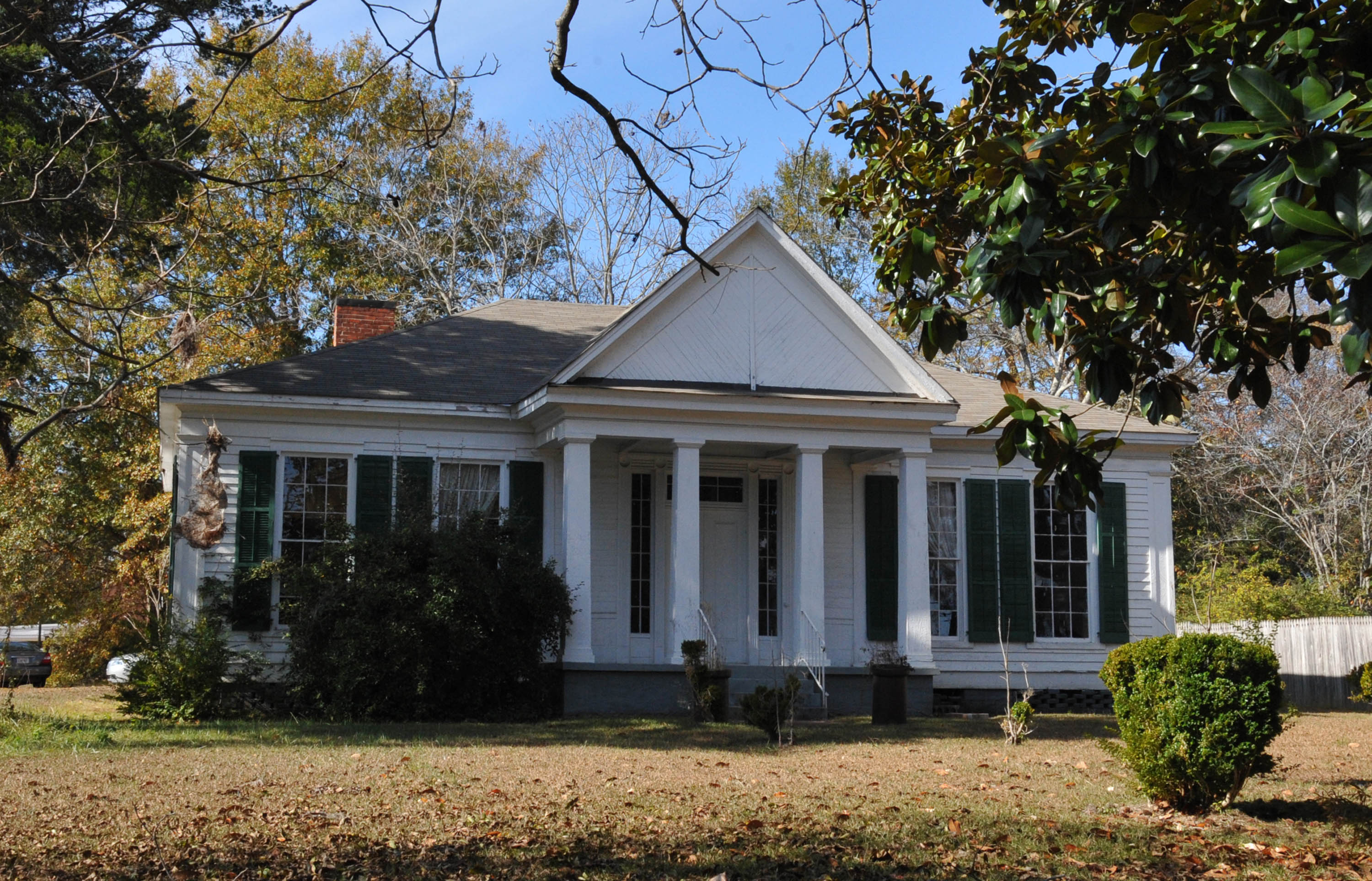 1830’S OR 1840’S BUILT BY ISHAM KELLY AND LIVED IN BY CONFEDERATE GENERAL JOHN HERBERT KELLY WHO WAS KILLEDAT THE BATTLE OF FRANKLIN. LATER LIVED IN BY MAXWELL STONE, SPEAKER OF THE HOUSE DURING RECONSTRUCTION